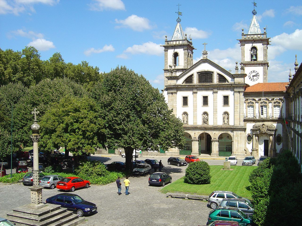 See where this picture was taken. [?]